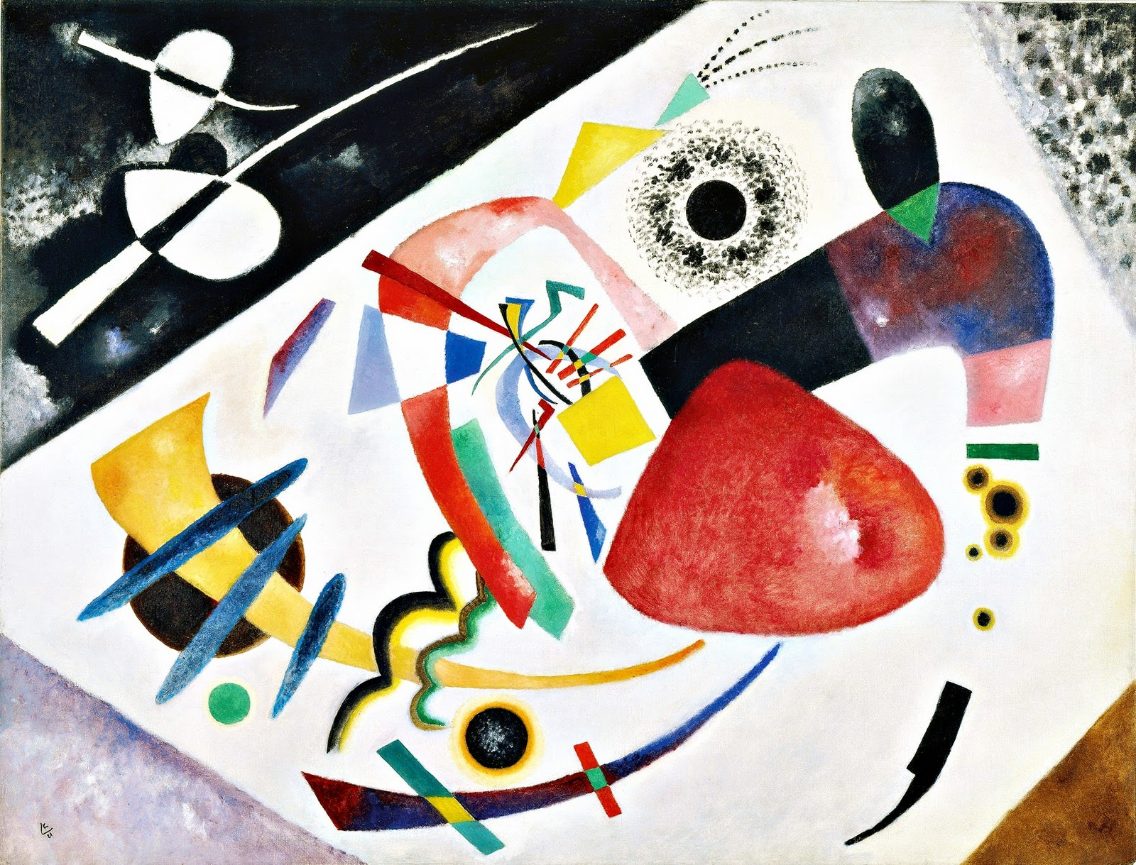 Painting Red Spot II, dated 1921